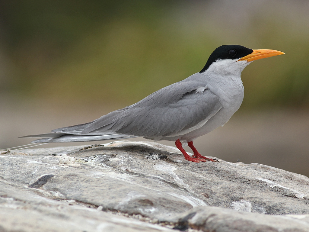 This is a medium-sized tern with dark grey upperparts, white underparts, a forked tail with long flexible streamers, and long pointed wings. The bill is yellow and the legs red. It has a black cap in breeding plumage as seen in this shot. In the winter the cap is greyish white, flecked and streaked with black, there is a dark mask through the eye, and the tip of the bill becomes dusky.